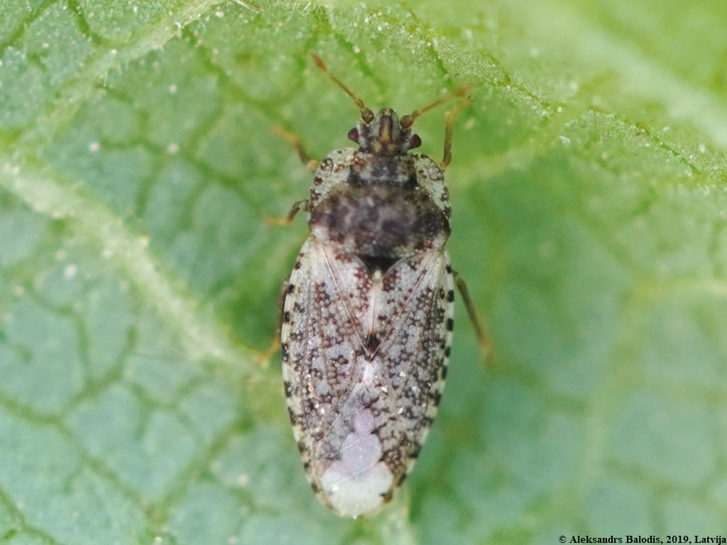 Parapiesma quadratum